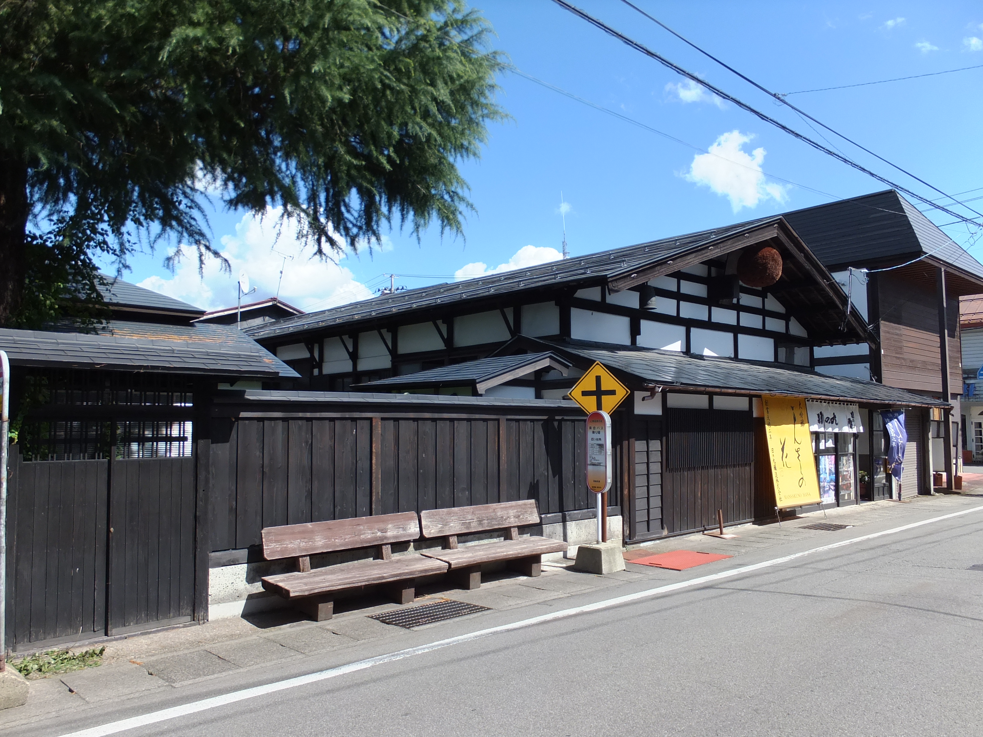 Sake brewery Hinomaru Jozo Co., Ltd. in Yokote City, Akita Prefecture, Japan